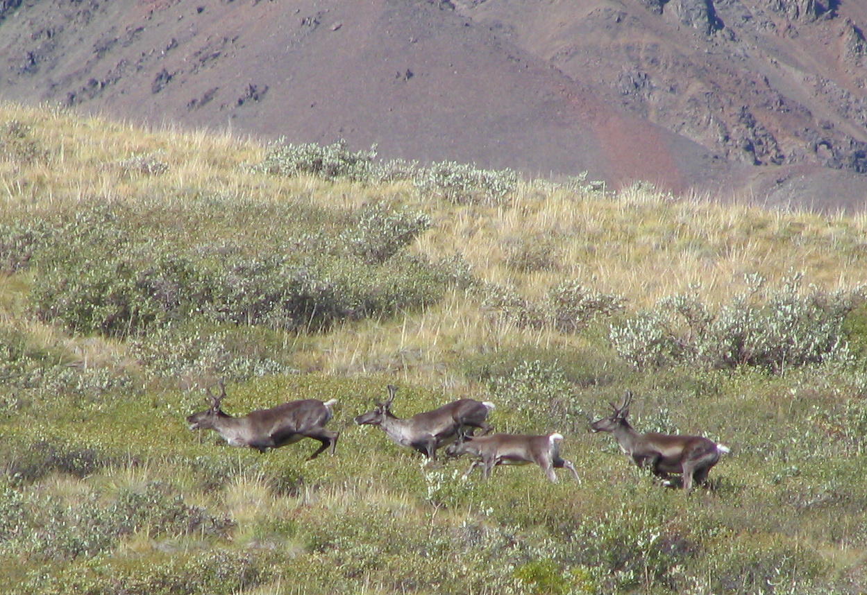 A photograph of a herd of Caribou running in Denali National Park and Preserve.